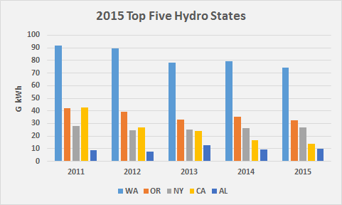 2015 Top Five Hydro StatesUS [1]